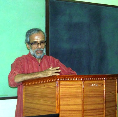 Rajan Gurukkal speaking at an event in 2007